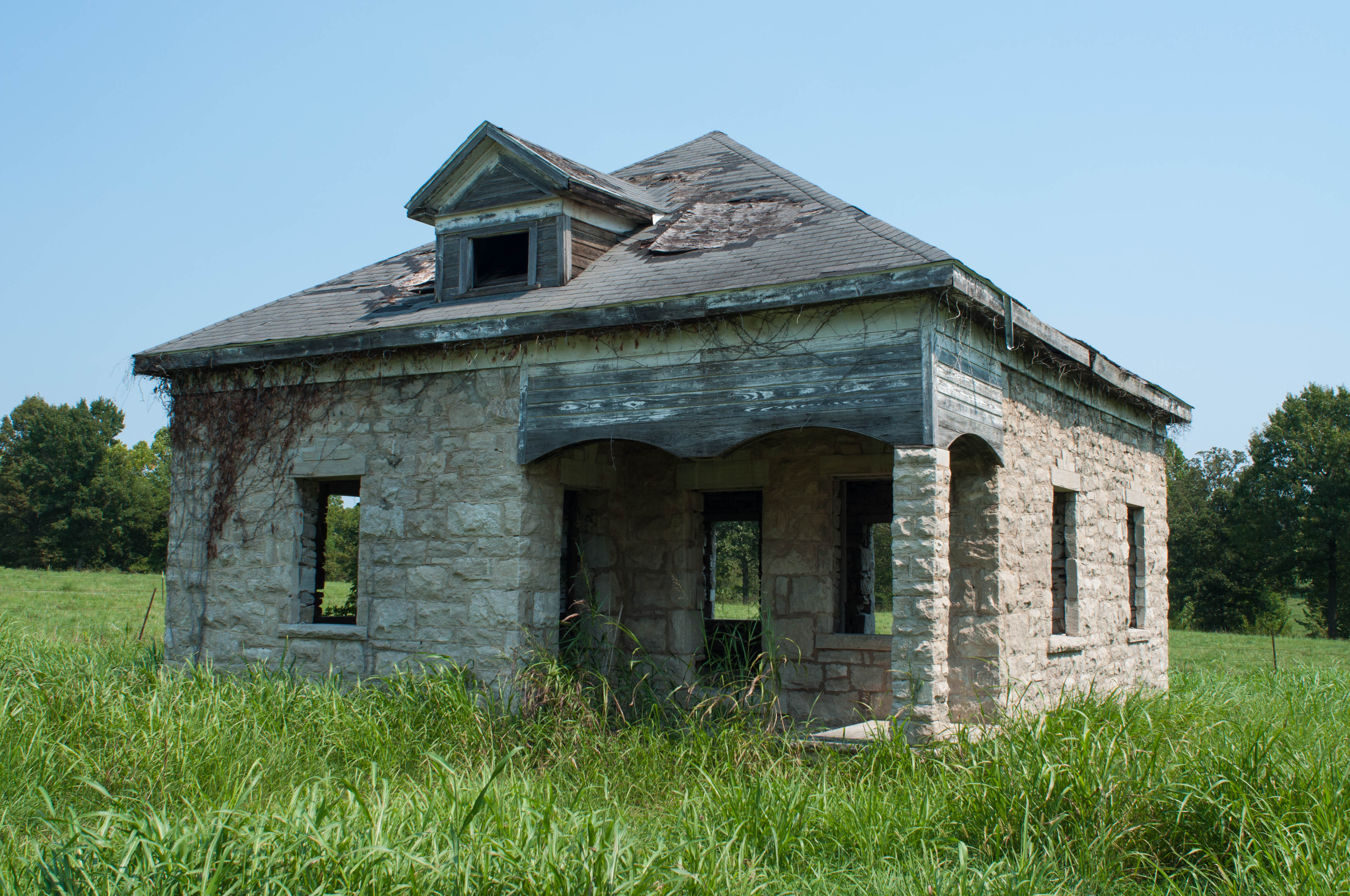 A house directly across from the quarry.